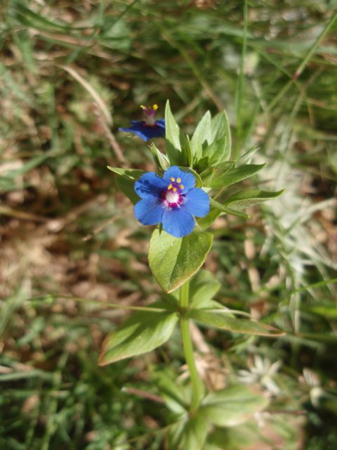 Anagallis crassifolia is a steno-Mediterranean species found in the western part of the basin and along the south European Atlantic Coast. It is found in Morocco (Tangiers; near Lalla Mimouna; Aouamara; near Kénitra), Algeria (Numidia: Bône, El Kala and the Constantine Tell: Djbel Ouach), in Tunisia (Aïn Draham, Mogods, Col du Vent), Spain (southern Andalusia in Cadiz), in Portugal (Algarve), in Sardinia and in France (Gironde; Landes and a doubtful presence in the Pyrenees-Atlantiques). In the Mediterranean region, the extent of occurrence of the species is about 1,033,000 km². The area of occupancy is smaller than 2,000 km2 and probably even smaller than 500 km2. This photo has been taken in the heart of Saghro mountains (Morocco).